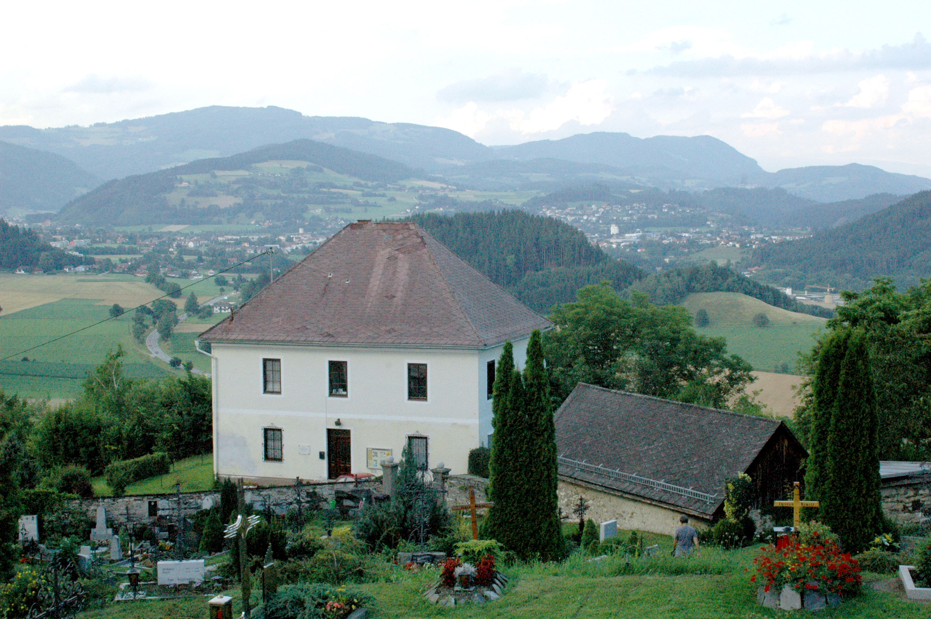 Switbert Lobisser`s birthplace in Tiffen #28, municipality Steindorf am Ossiacher See, district Feldkirchen, Carinthia, Austria, EU